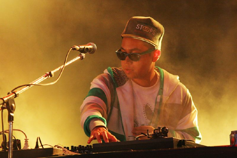 The Cool Kids at the Eurockéennes 2008